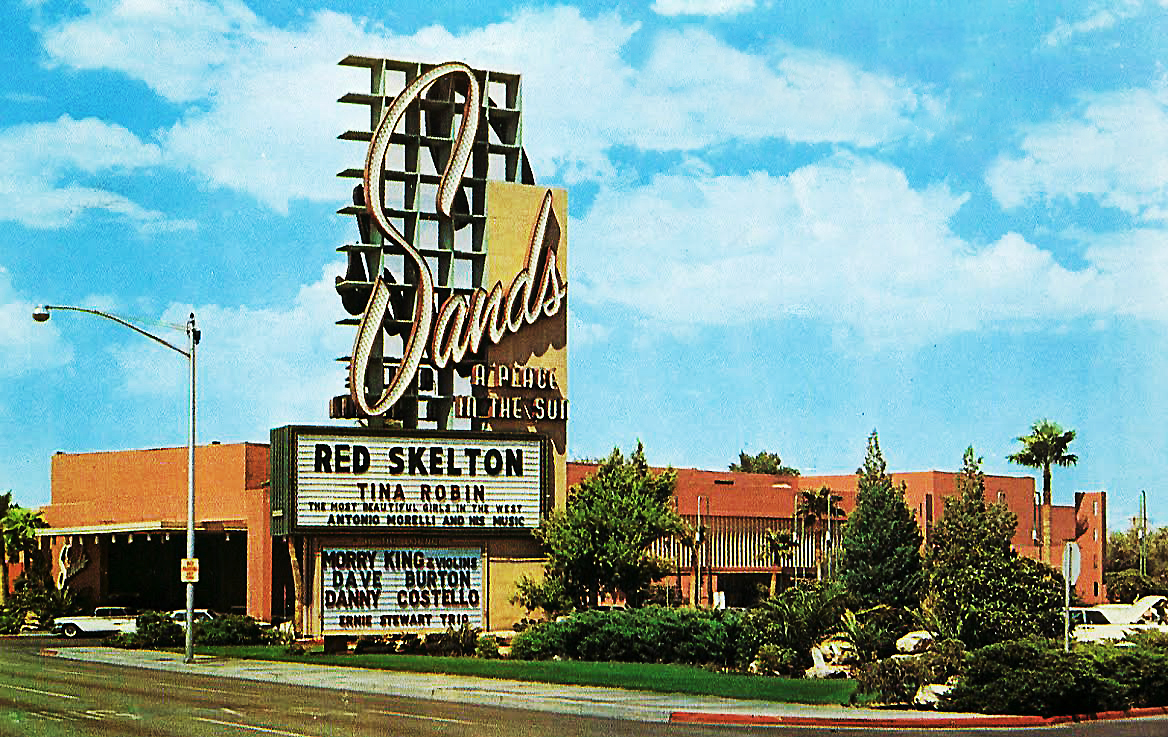 Postcard of Sands Hotel and Casino, Las Vegas.